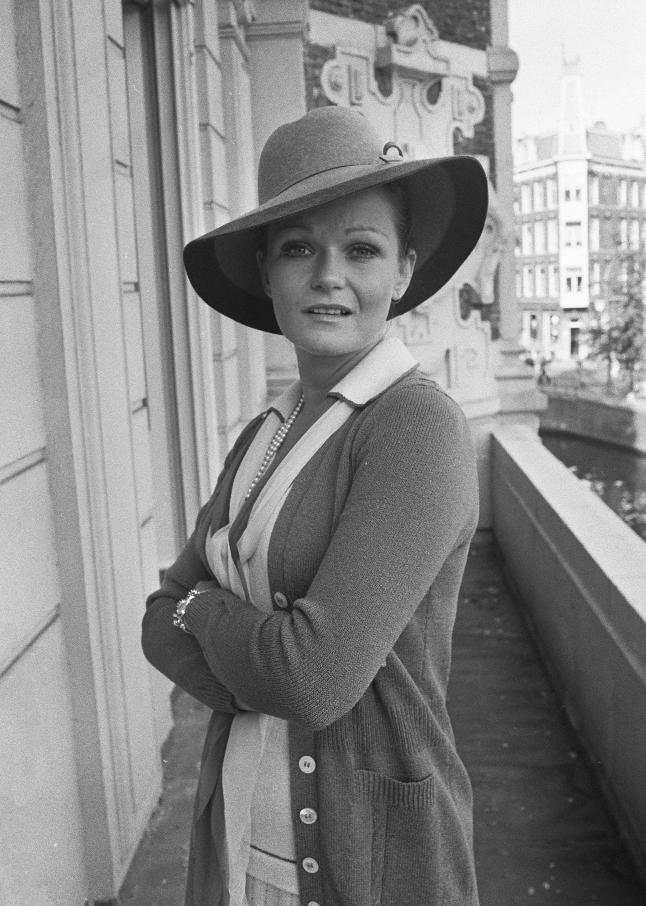 Valerie Perrine